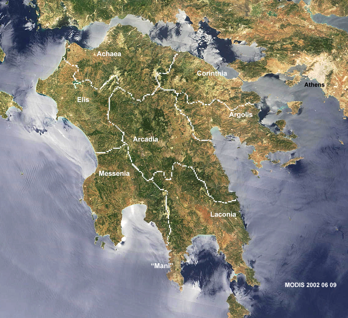 Satview of Peloponnese, Part of Greece, in visible light. NASA-MODIS-Project Blue Marble. Names and borders added by ulrichstill.